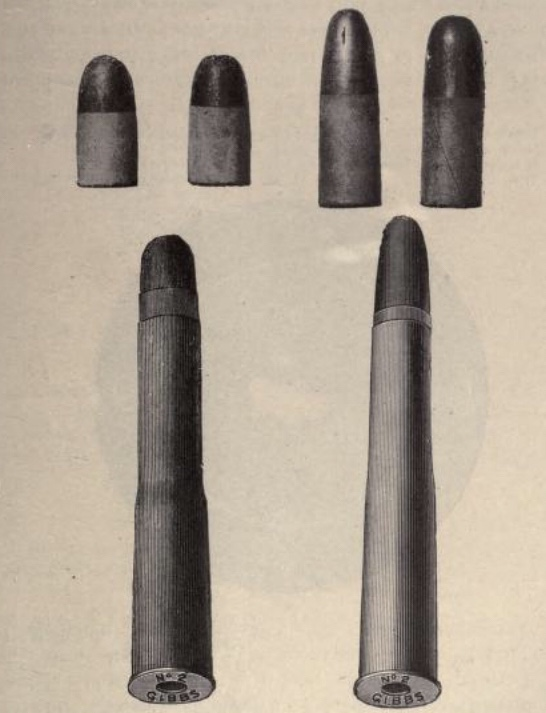 .461 No 2 Gibbs cartridges, 360 grain cartridge and bullets on the left, 570 grain cartridge and bullets on the right.